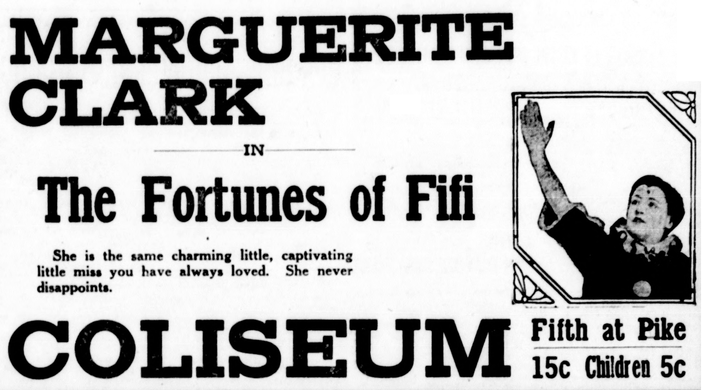 The Fortunes of Fifi was a 1917 silent American historical romance film directed by Robert G. Vignola and stars Marguerite Clark. This is from a newspaper advertisement.